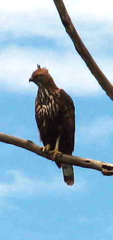 Sri Lankan Changeable Hawk Eagle at Uda Walawe National Park, Sri Lanka.